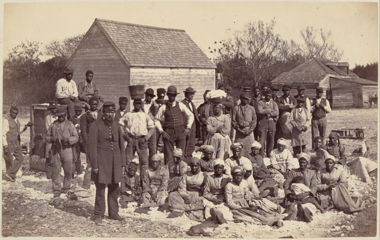 Slaves of Gen. Thomas F. Drayton, Hilton Head, S.C. in 1862 after Drayton deserted them, fleeing from the Union army